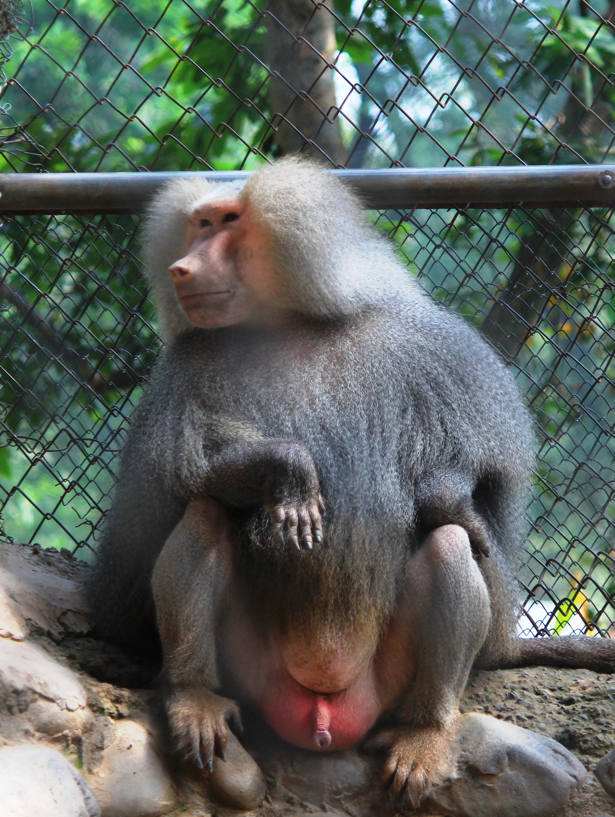 Hamadryas baboon Binomial Name: Papio hamadryas ChattBir Zoo Zirakpur Mohali Punjab